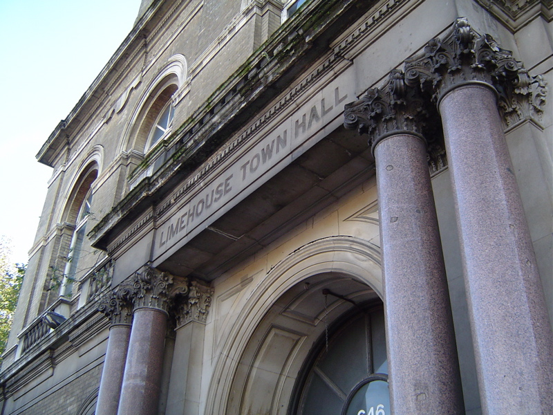 Limehouse Town Hall (front view, angled), 646 Commercial Road, London UK